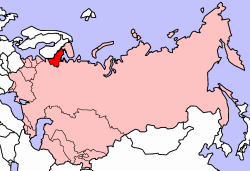 Created by Aivazovsky using Image:PostSoviet Regions Map.png and Image:BlankMap-RussiaDistricts.png.